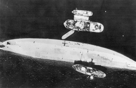 AWM Caption: Tromso fiord, Norway. . A reconnaissance photograph showing the capsized hull of the 45,000 ton german battleship Tirpitz after attack on 1944-11-12 by Lancaster aircraft of no. 9 And no. 617 Squadron RAF, with 12,000 pound bombs.